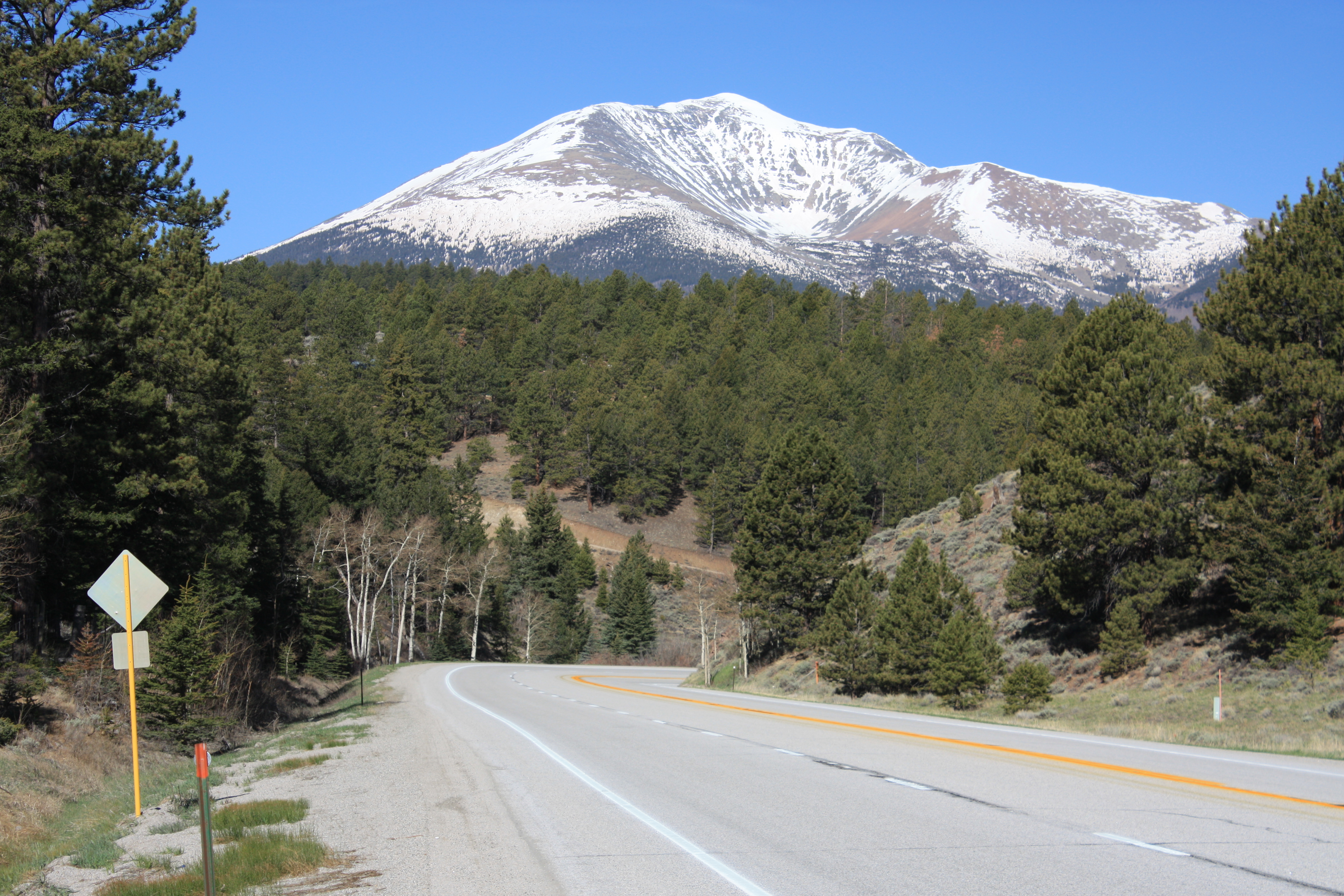 Mount Ouray (13,971'), one of Colorado's highest non-14ers, taken from the north side of Poncha Pass, along U.S. 285. IMG_2185